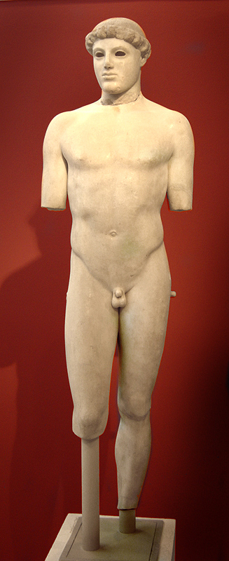 Statue of an ephebe, perhaps an athlete. Work attributed to Kritios and Nesiotes, by comparison with the Tyrannoktonoi group, one of their works known from Roman copies. Missing arms from elbows, left foot and ankle, right leg from below knee, inserted eyes. Damaged nose, chin, cheeks and neck.